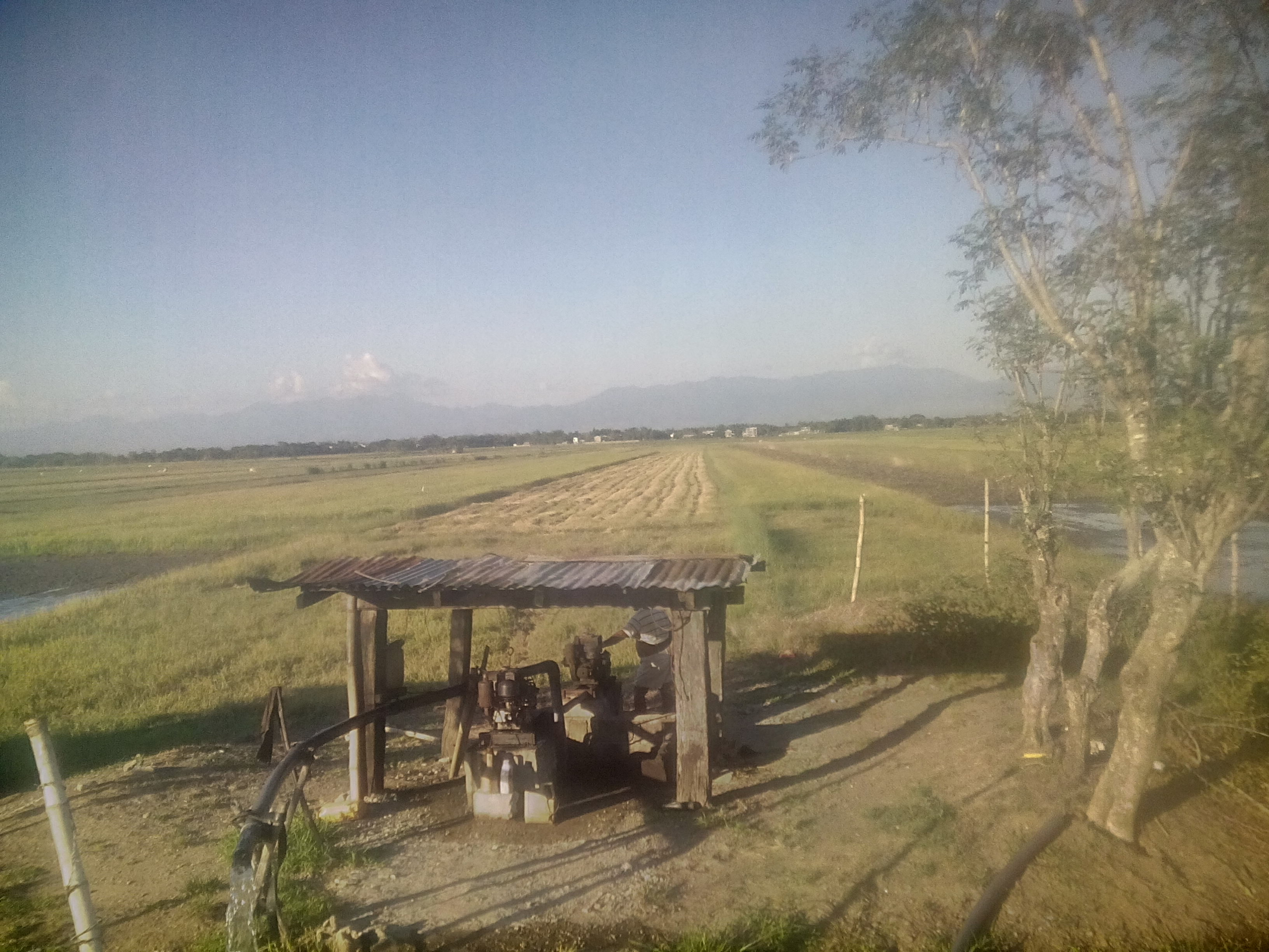 Calinaoan Centro rice fields